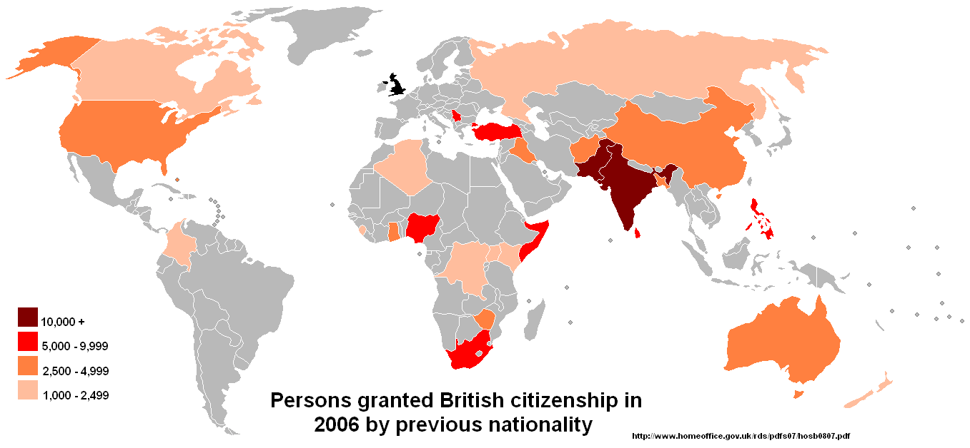 Map of the world showing number of persons acquring British citizenship in 2006 by previous citizensip, data acquired from UK Home Office (